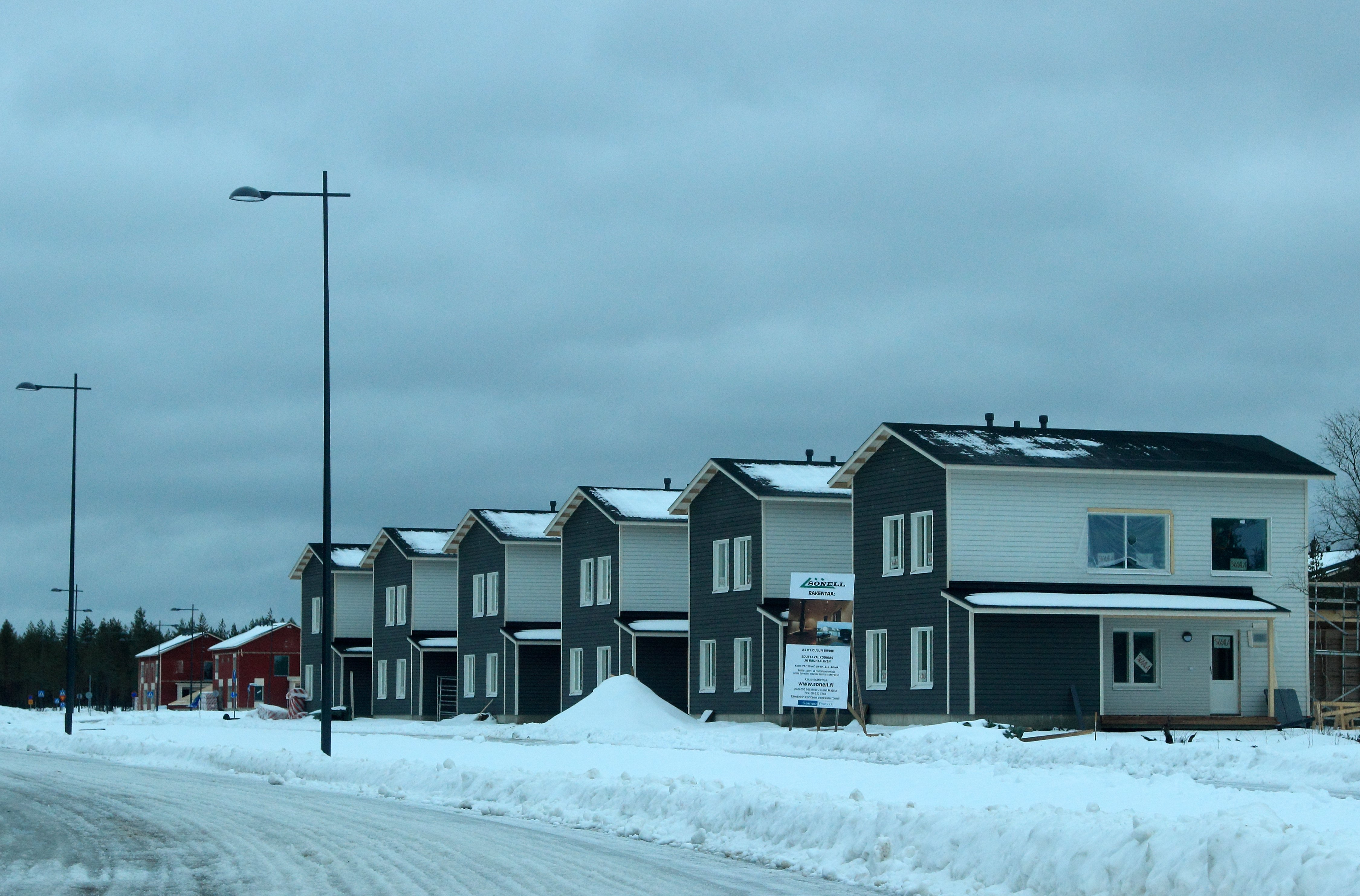 Houses are being built in Kivikkokangas neighbourhood in Oulu.